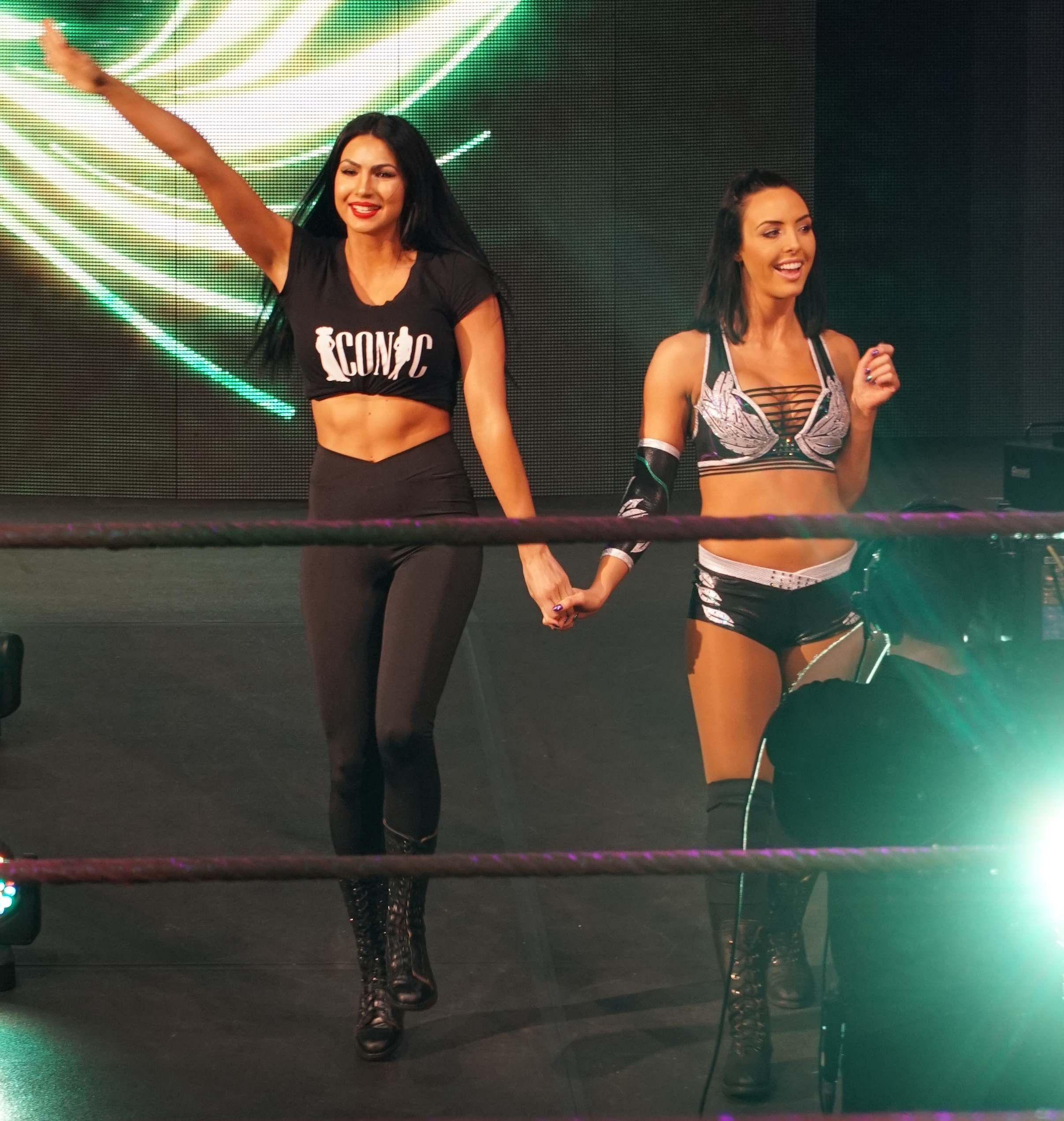 NOLA 2018 - WWE Axxess - Saturday - Peyton Royce Vs Kairi Sane Peyton Royce def. Kairi Sane ( Deux semaines a Nola pour la ville et pour WWE Wrestlemania XXXIV Two weeks Nola for the city and for WWE Wrestlemania XXXIV )